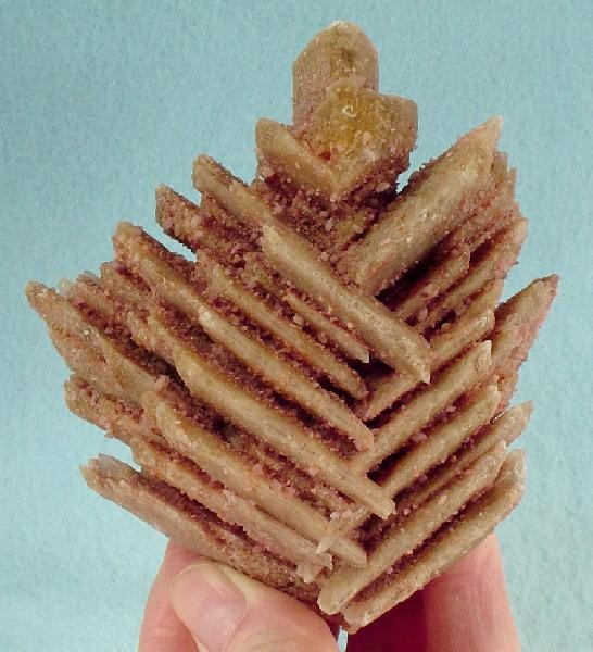 Gypsum Locality: Sinclairs Gap Lake, Middleback Range, Eyre peninsula, South Australia, Australia (Locality at ) Size: 10.8 x 9.8 x 6.0 cm. A UNIQUE and DRAMATIC herringbone-shaped CABINET cluster of lustrous and translucent, light brown gypsum blades. The cluster looks like a Christmas tree and the blades reach 6.7 cm. The rich dusting of tiny, pastel-pink, second-generation gypsum crystals are a beautiful accent. Very nearly pristine, with only a few lightly bruised termination edges. This super showy piece hails from the well-known South Australian locality of Sinclairs Gap Lake. One of the best evaporite gypsums, that I have seen from any locality.